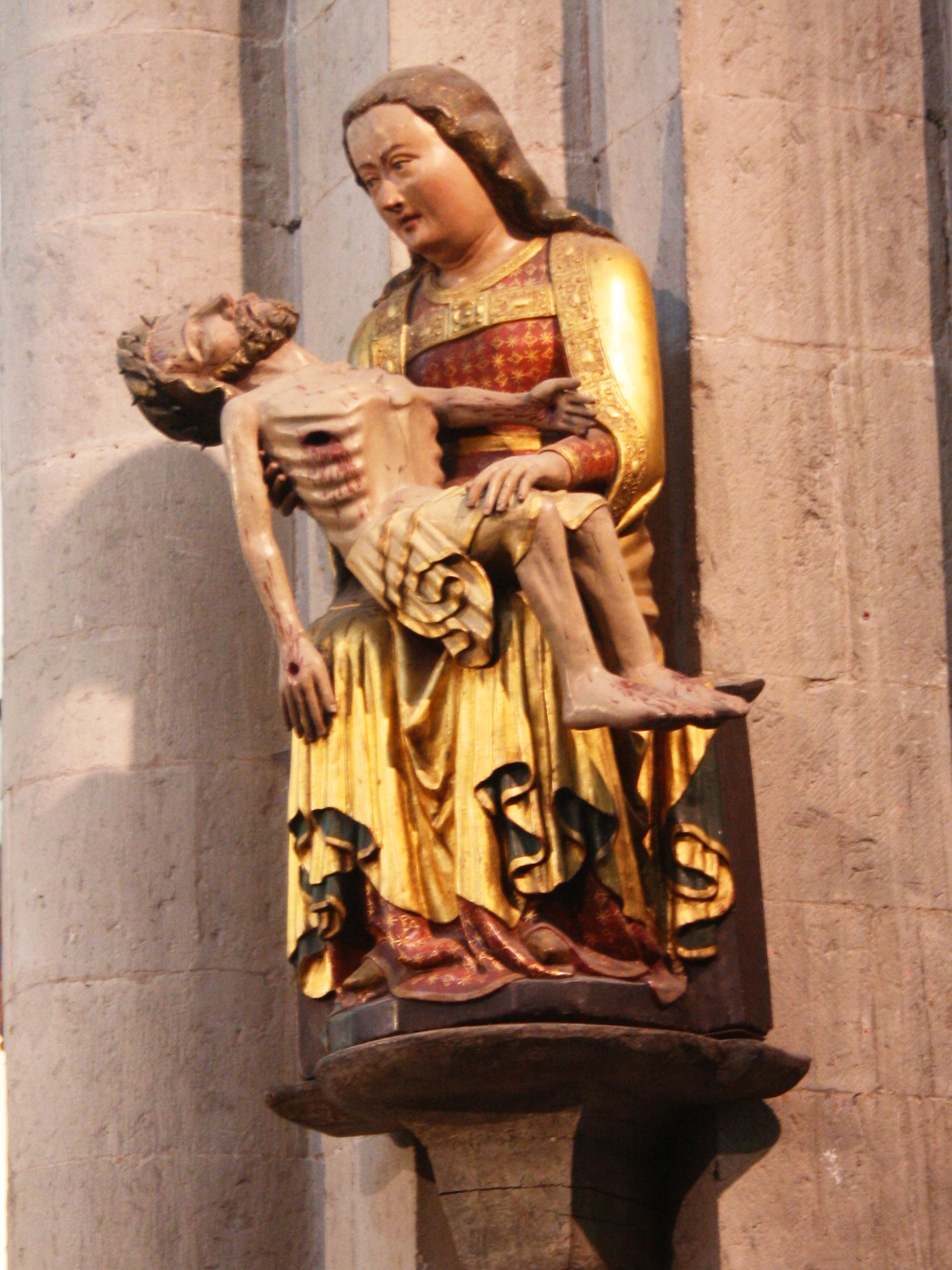 Knechtsteden abbey, Germany. Pietà, dated 14th century.